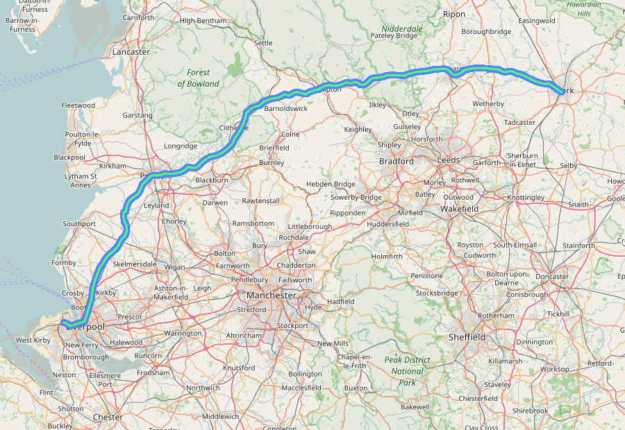 Route of the A59 using Open Street Map data